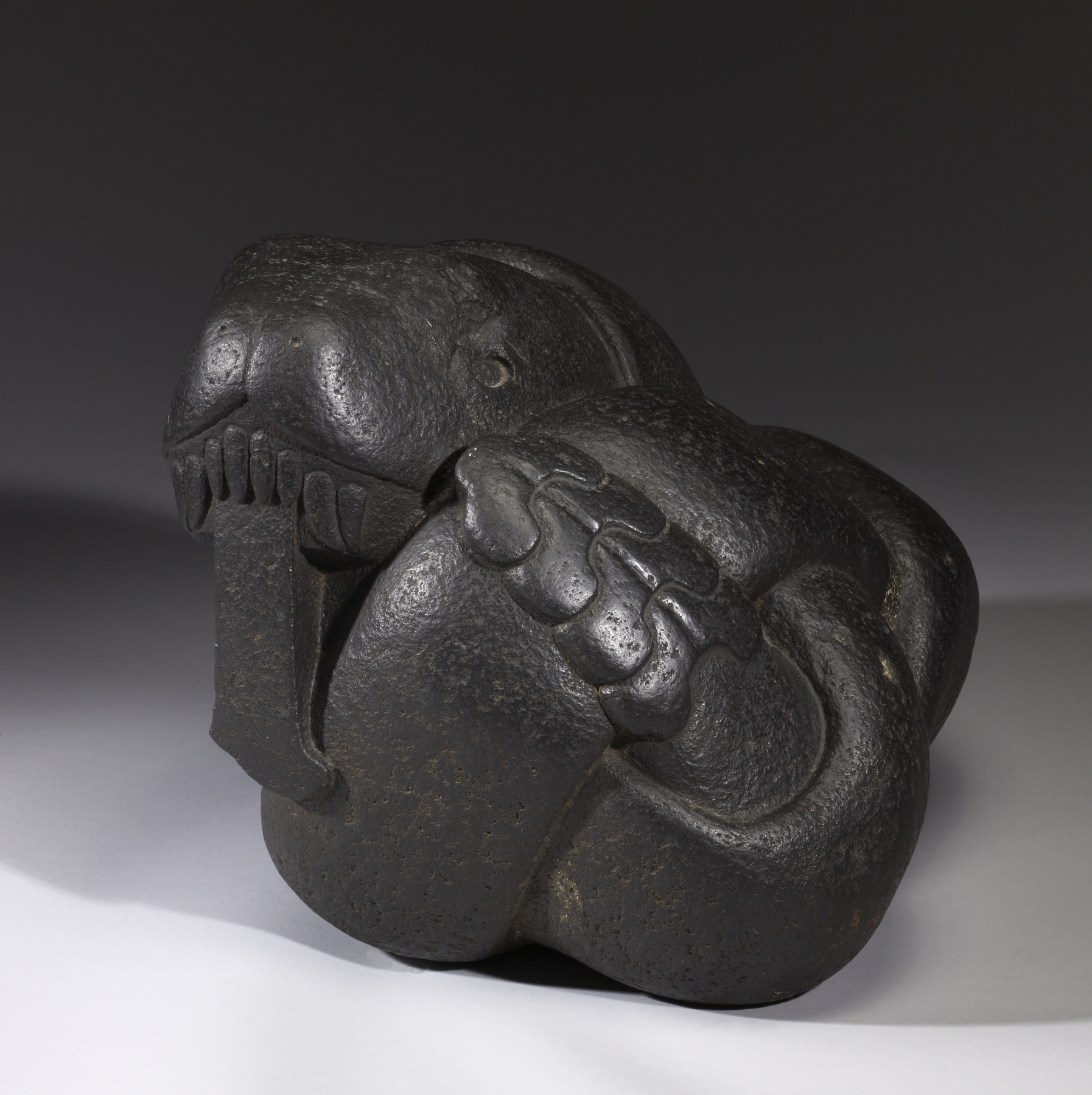 Compact and smoothly polished, this rattlesnake displays typical Aztec sculptural techniques. Both the musculature of this snake's body and its head have been sculpted in great detail. The eyes were probably once inlaid, and ferocious fangs descend from the snake's upper jaw. Snakes were powerful symbols throughout Mesoamerican history, linked with the sky, rain, and agriculture. Aztecs may have seen the snake's shedding of its skin as a metaphor for the cyclical nature of life, death, and rebirth.